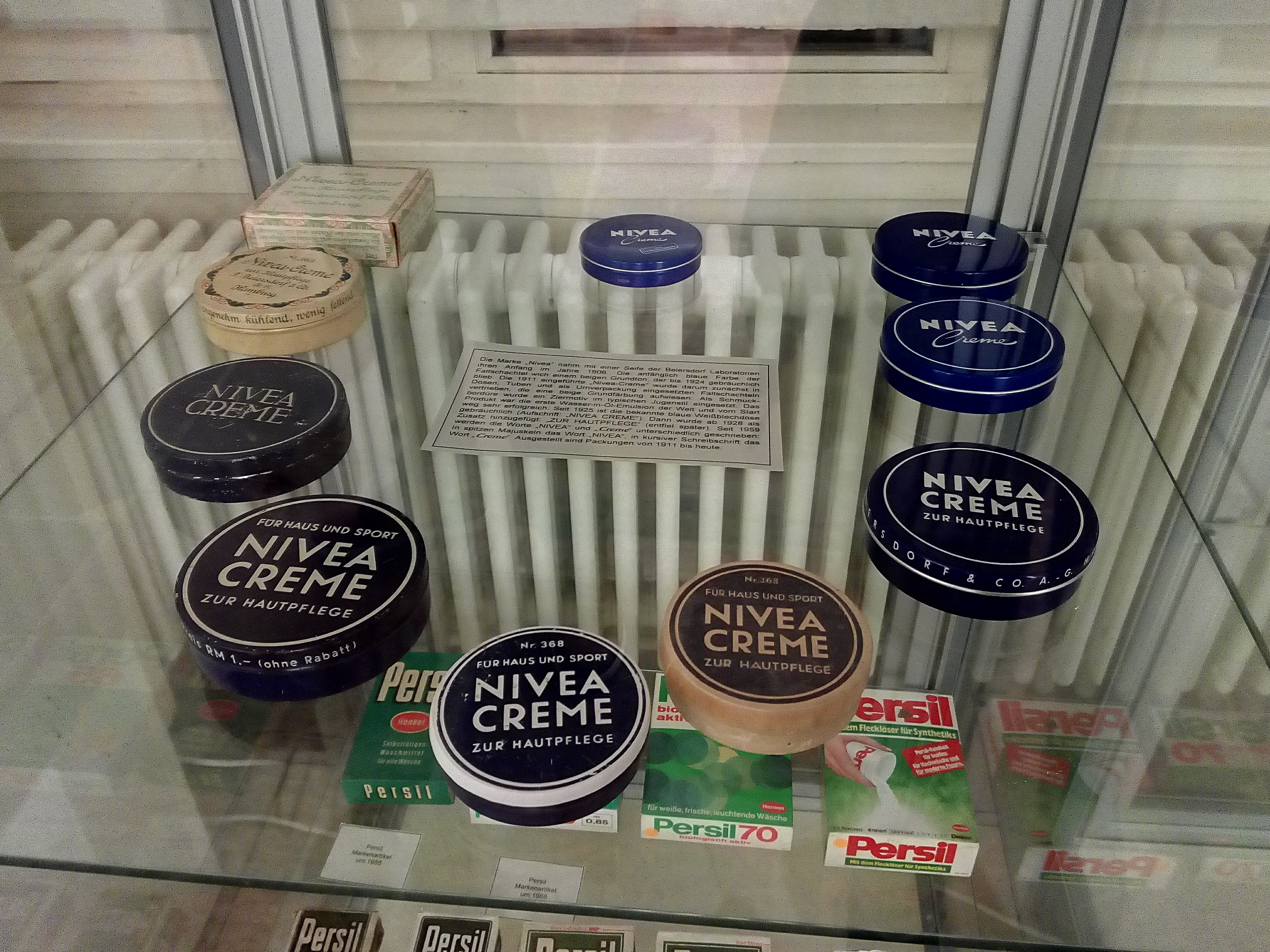 Some generations of the Nivea and Persil boxes in the German packaging museum (Heidelberg)